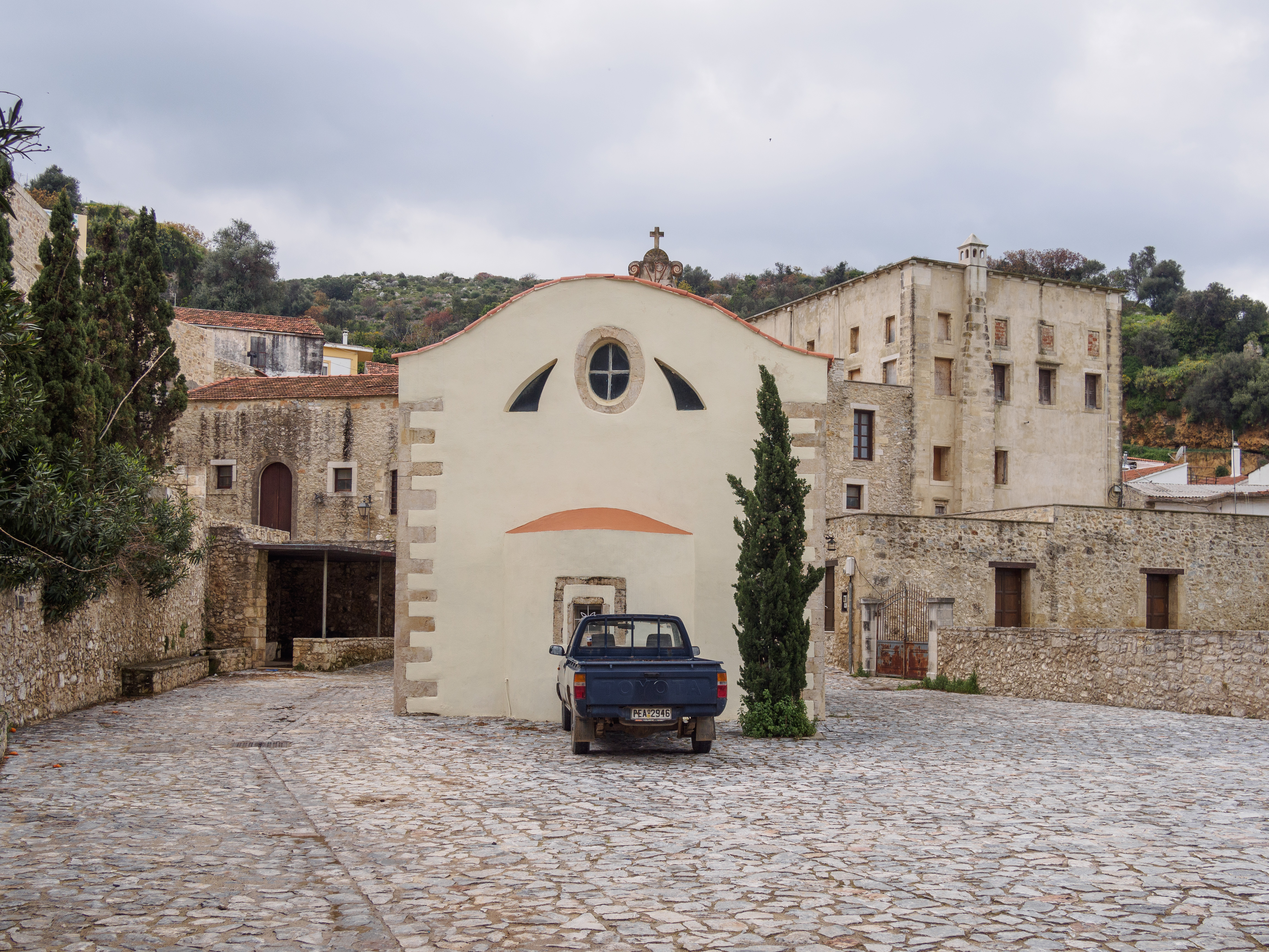 View of Prases or Prasies village, Rethymno, Crete. It is assigned as a tradional settlement. The church is decdicated to Saint Antonious.